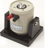 Electromagnetic Shaker